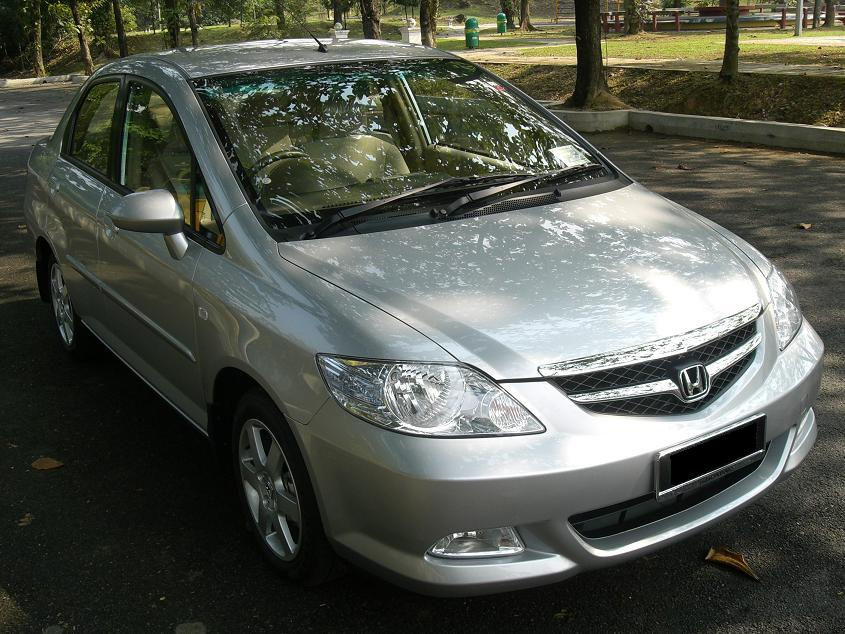 Honda City ZX photographed in Malaysia